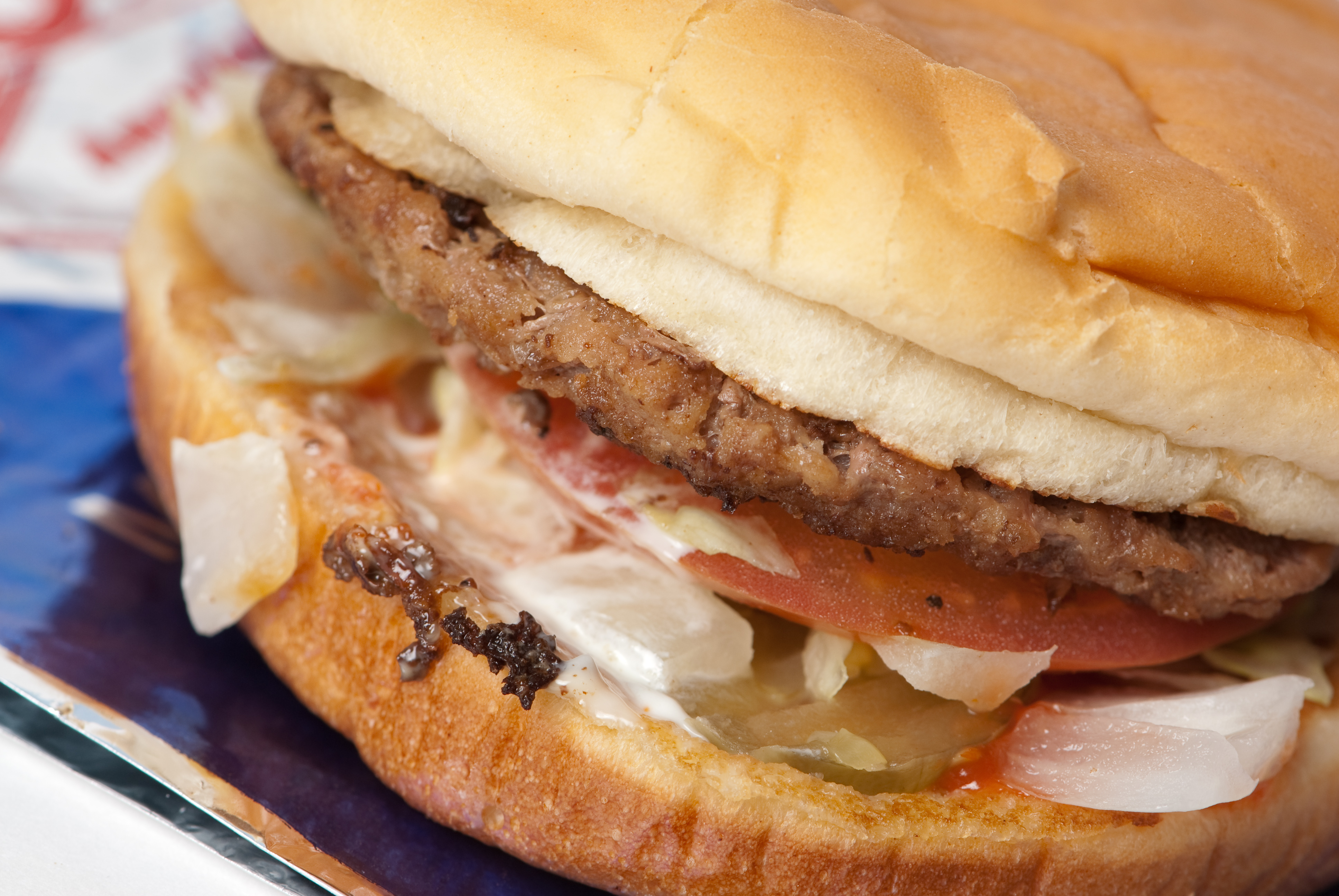 Macro shot of the Jr. Deluxe Burger from Sonic Drive-In.